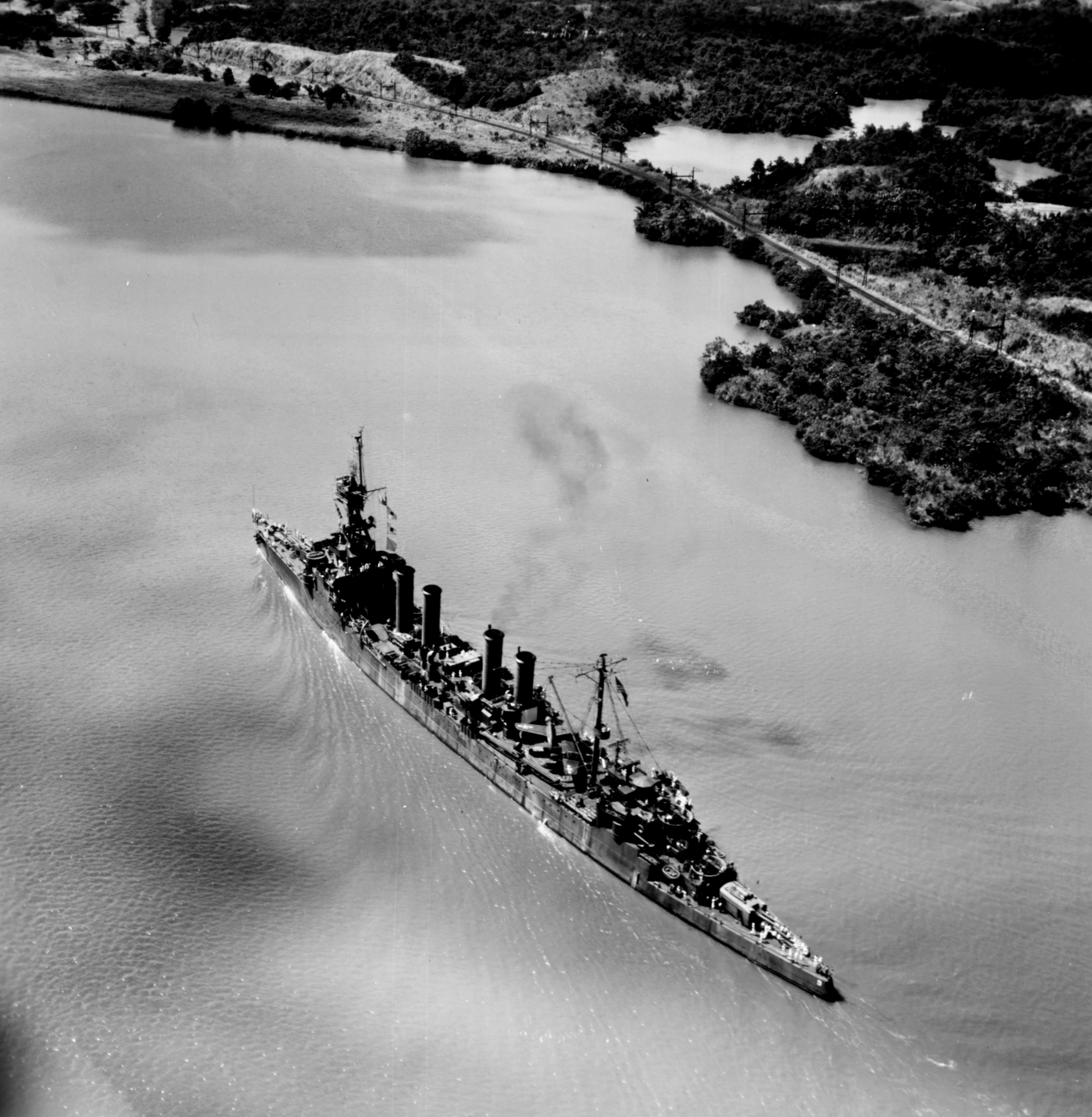 The U.S. Navy light cruiser USS Richmond (CL-9) in the Gatun Lake, Panama Canal, on 11 October 1945.